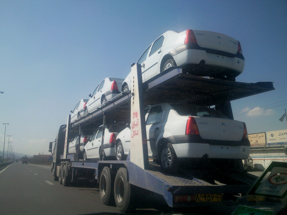 a Car Transporter HOWO carry some Renault Tondar 90 near Arak.